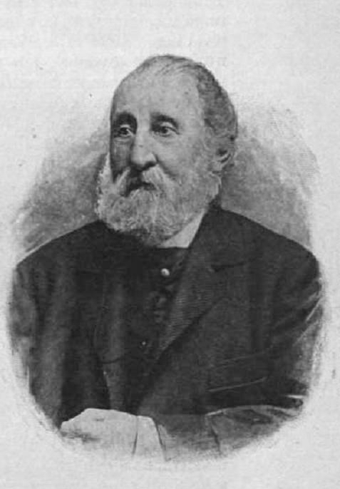 István Bartalus